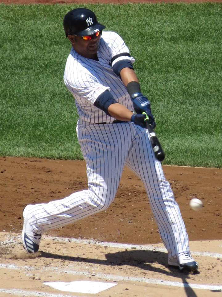 Edwin Encarnacion in 2019